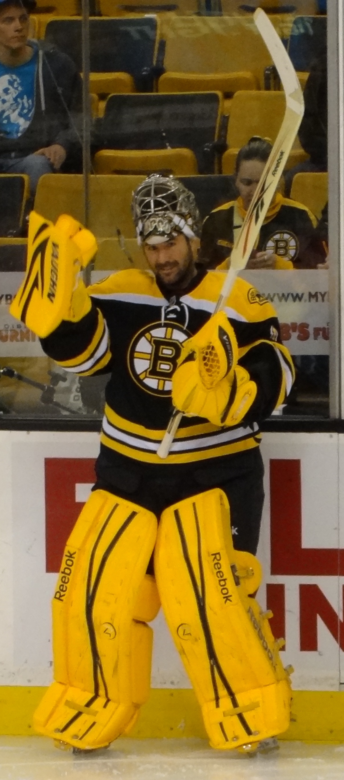 Marty during the pre-game warm-ups prior to the Boston Bruins vs Washington Capitals game at the TD Garden, Boston, MA.